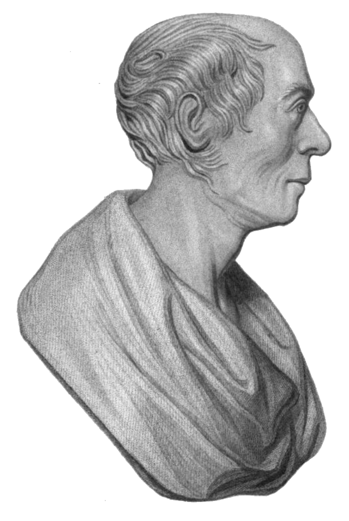 Portrait of William Symmington.